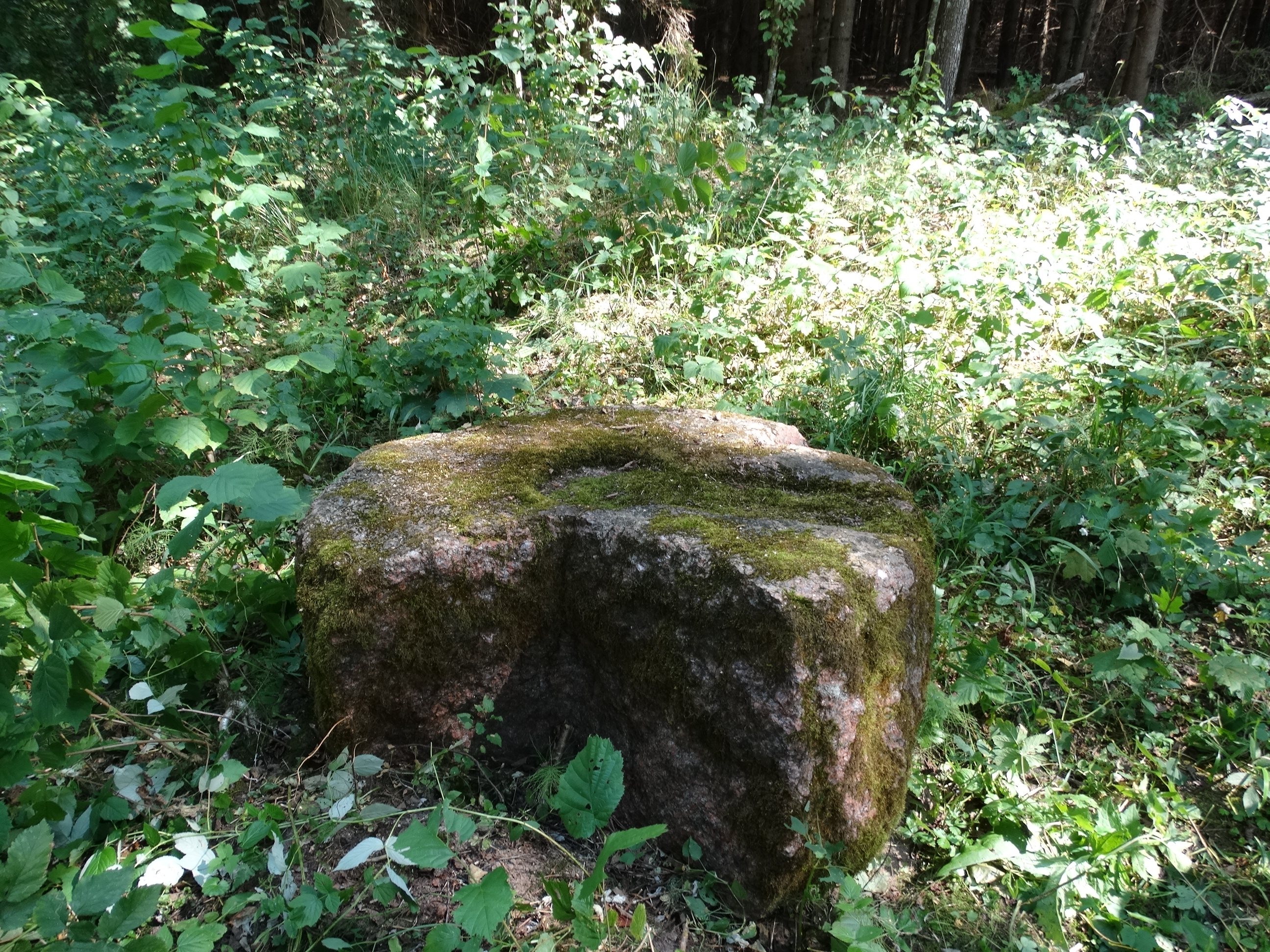 Katinai mythological stone, Sedeikiai, Anykščiai, Lithuania